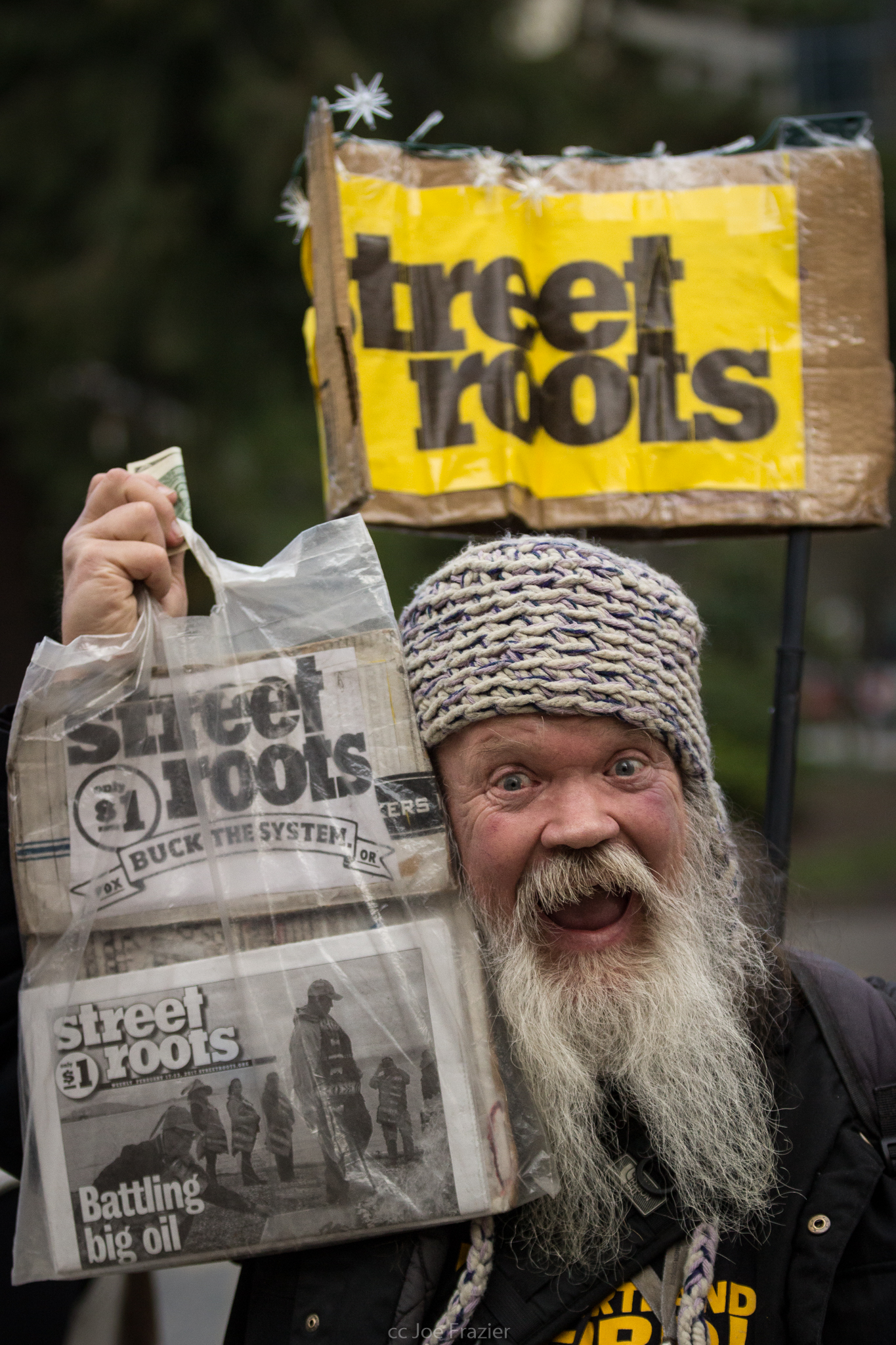 General Boycott & Strike: #DivestPDX Feb 17, 2017 Organized by Direct Action Alliance and Voz Hispana Cambio Comunitario.